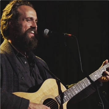 A picture I took of Sam Beam during an Iron and Wine performance in April 2015